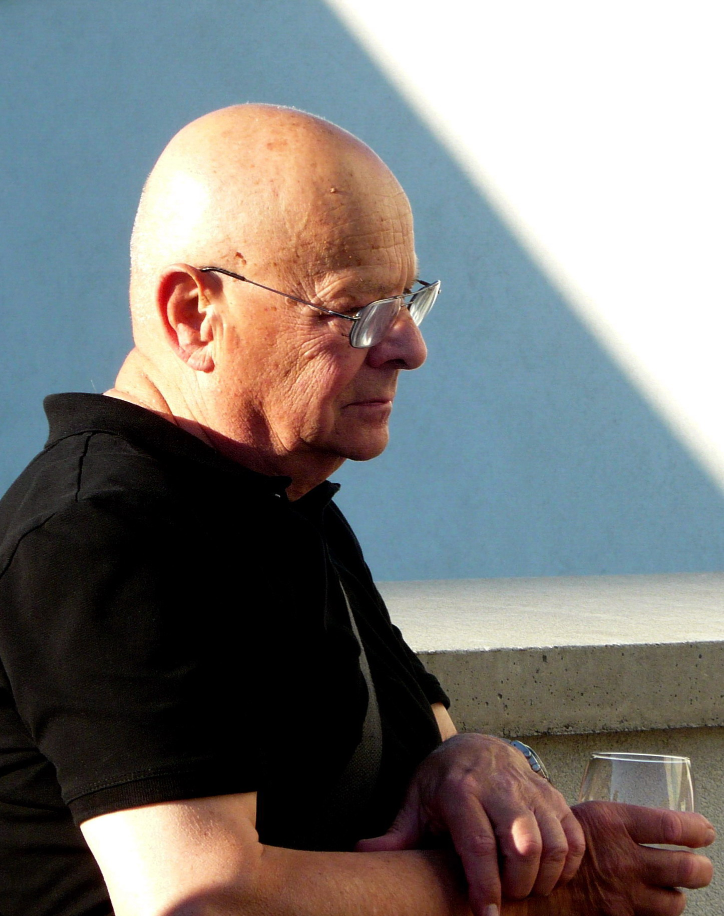 Sculptor Aleš Veselý at the openng of his exhibition Permanence and Inetia at DOX, Prague.